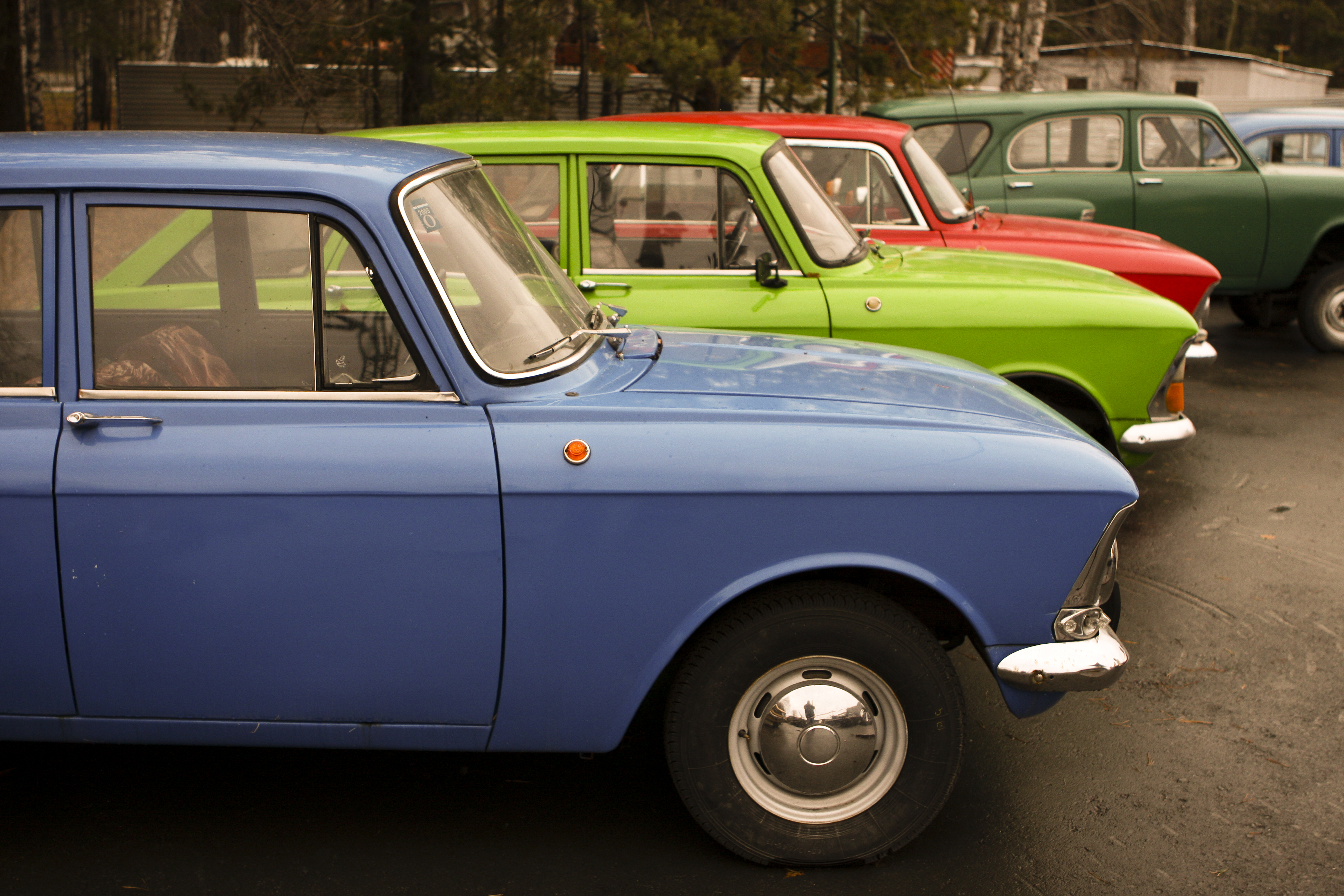 Why they are on display at the Novosibirsk Railway Museum I don't know. Novosibirsk, Russia, November 2008